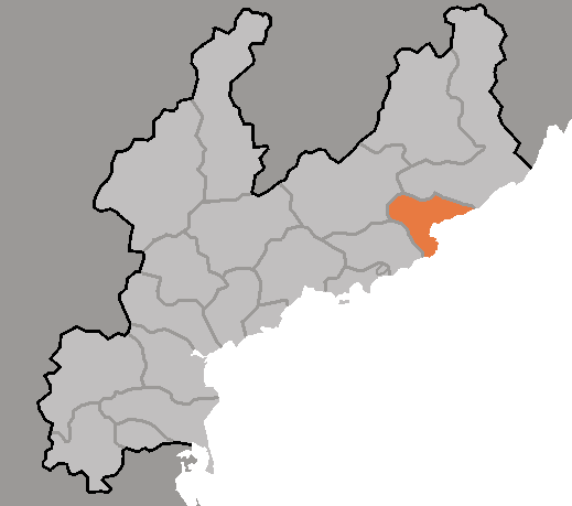 Map of Riwon, Hamgyong-namdo, DPRK, 2006